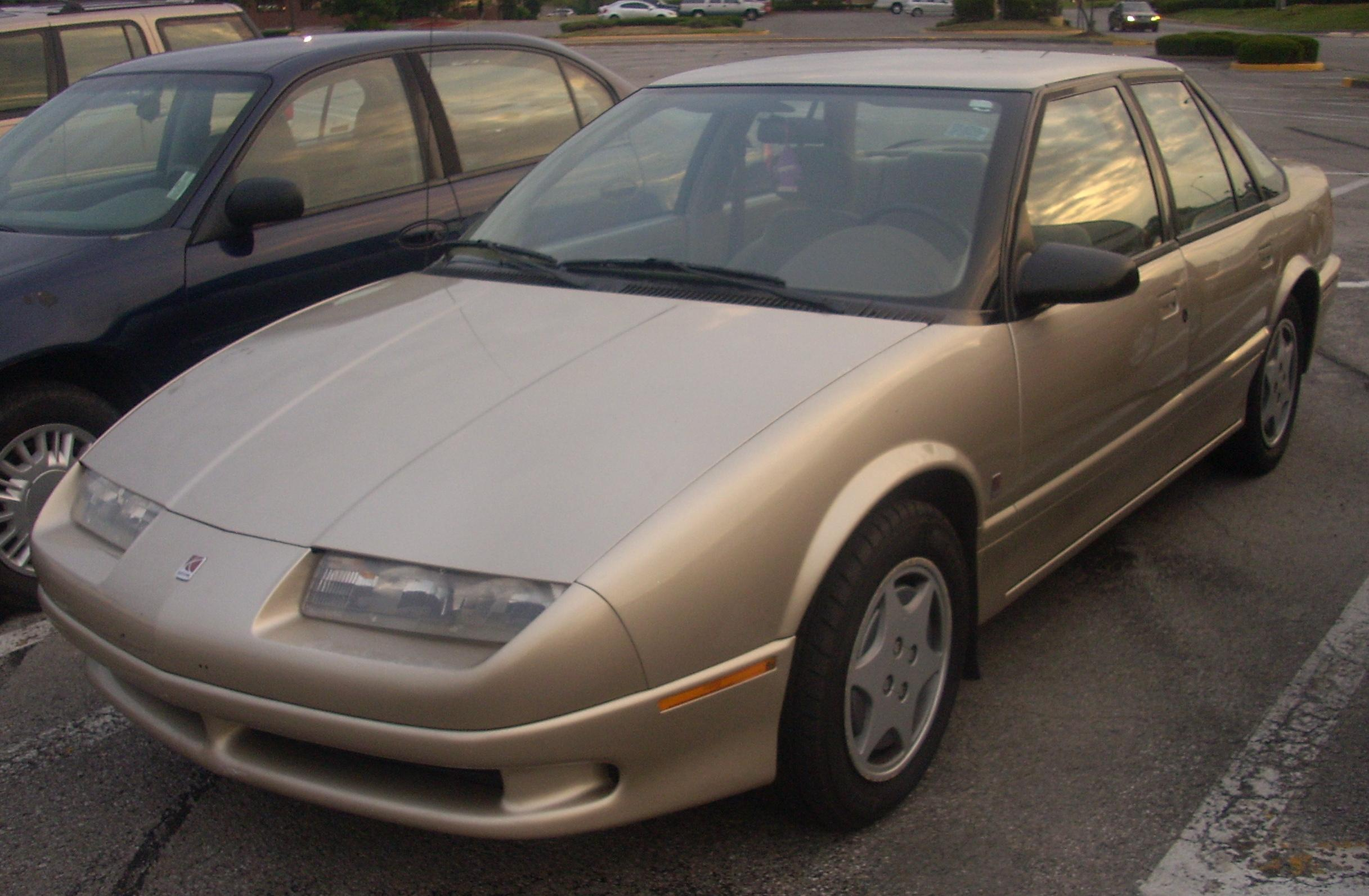 Saturn SL photographed in Lexington, Kentucky, USA.